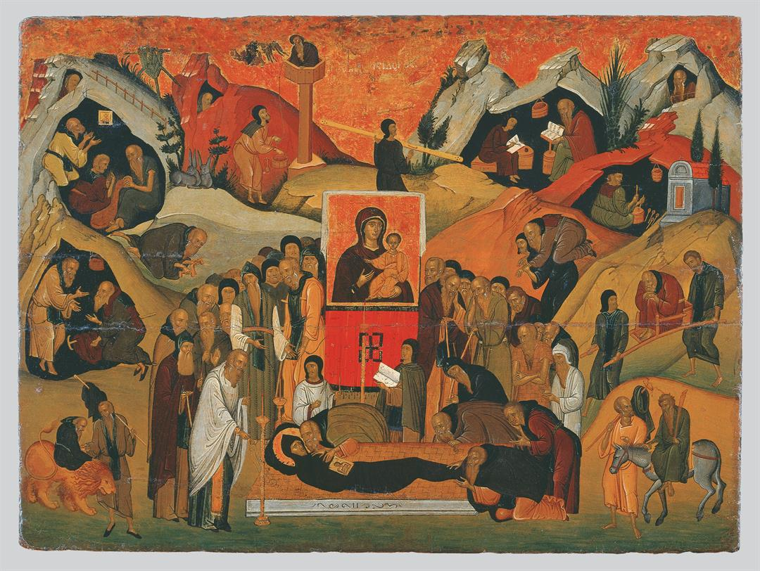 The Dormition of Saint Ephraim the Syrian The Dormition of Saint Ephraim the Syrian that lived in the 4th c. Portable icon painted by a mid-15th c. Cretan artist. An iconographical novelty is the large icon of the Virgin Hodegetria that seems to serve the needs of the funeral service. Measurement: 51,5 x 69 cm Exhibit Number: ΒΧΜ 01545